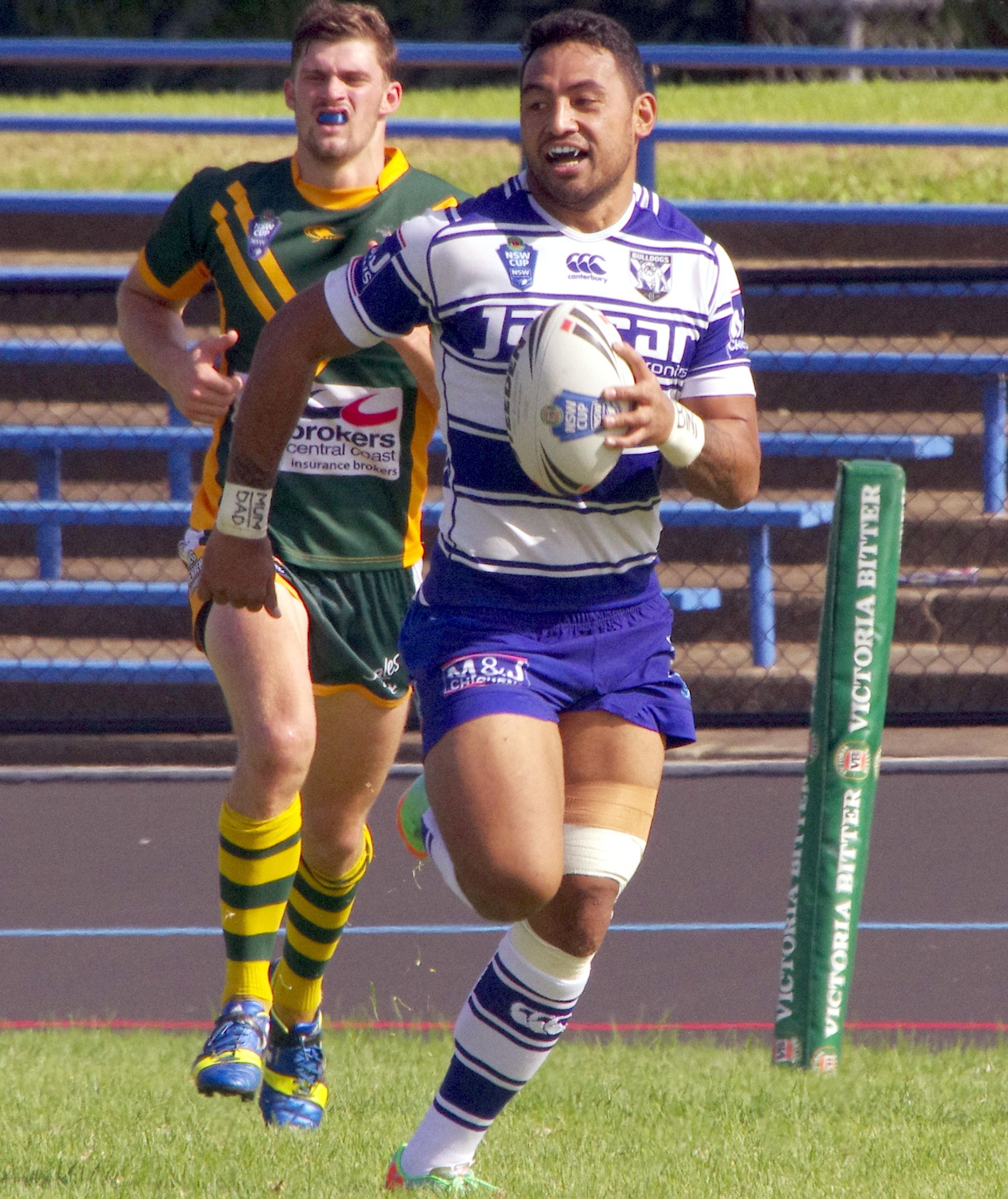 Krisnan Inu